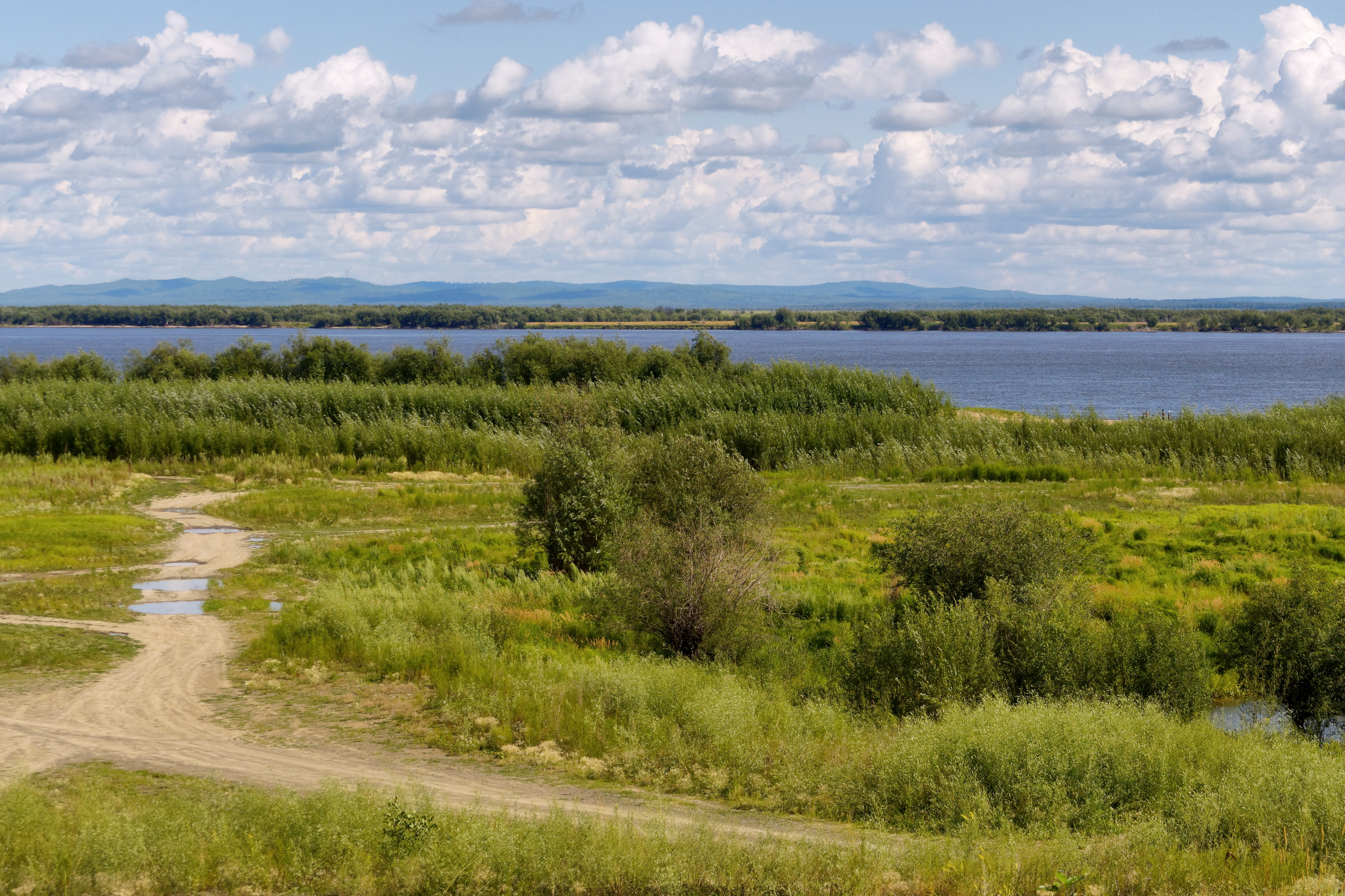 Amursk. Amur River